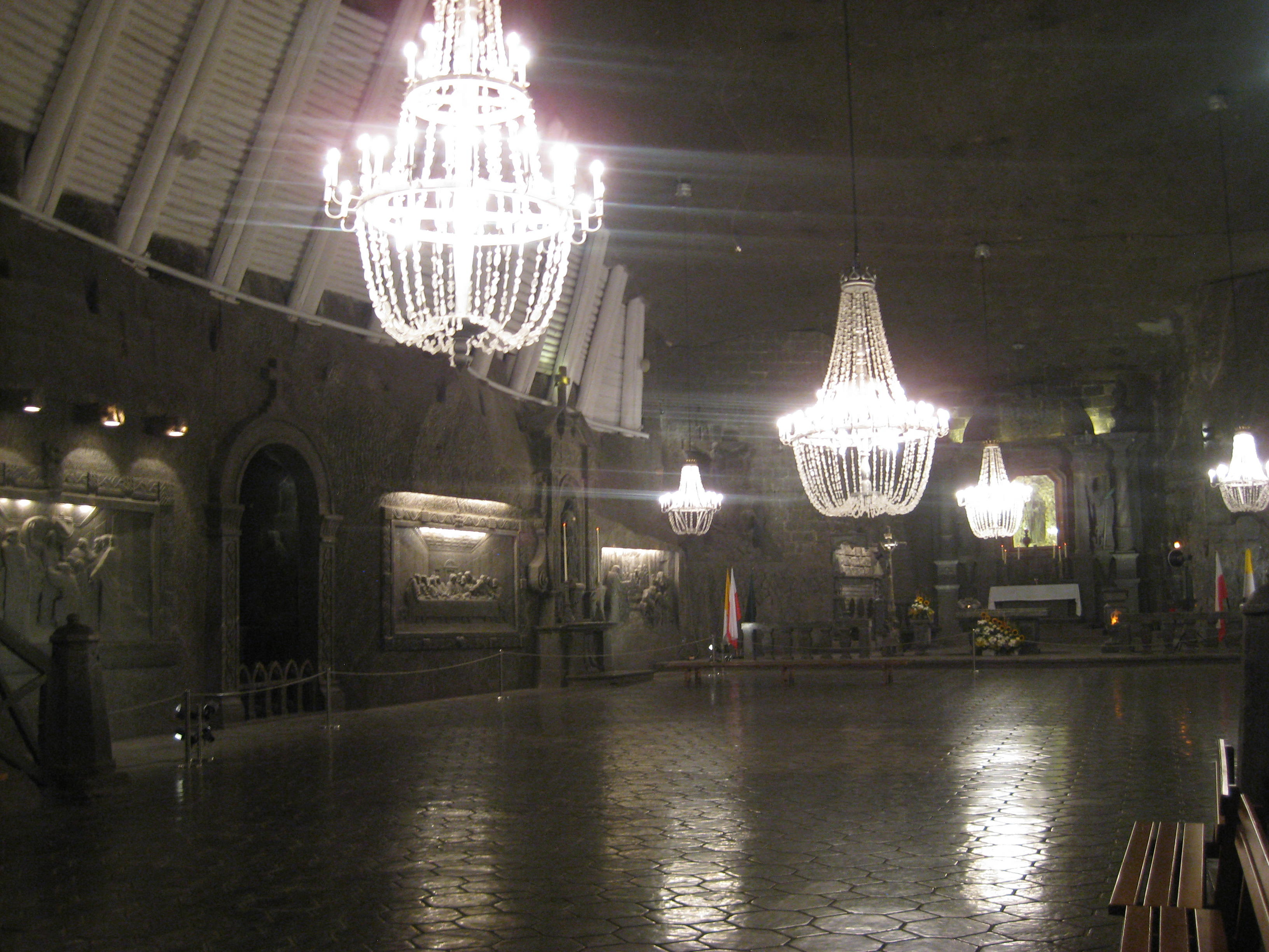 Church inside Wieliczka.